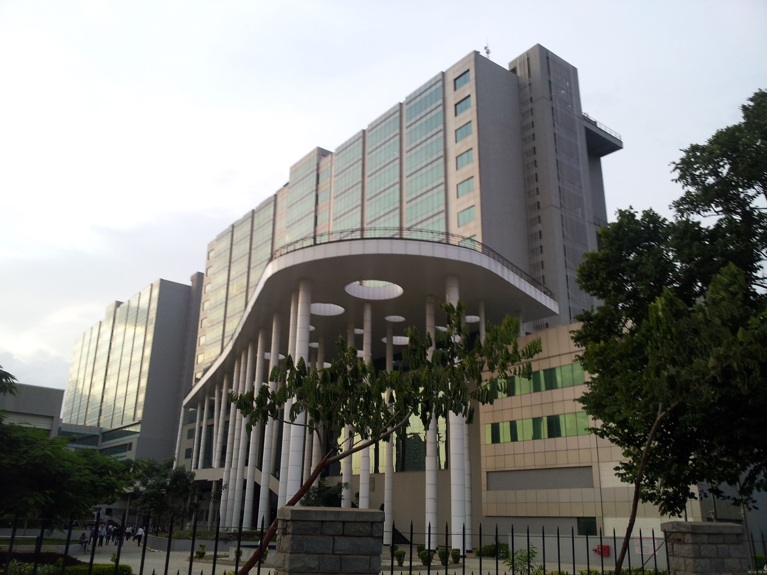 Photo from Wipro Sarjapur office